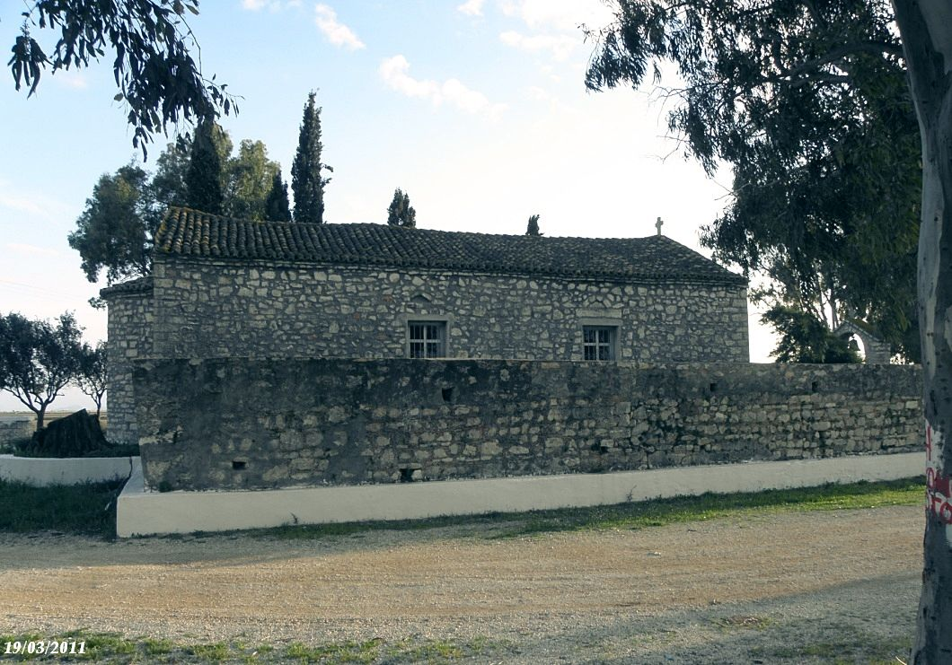 The Christian Orthodox chapel of Panagia in Finikia Island, Mesolongi, Aetoloacarnania, Greece.